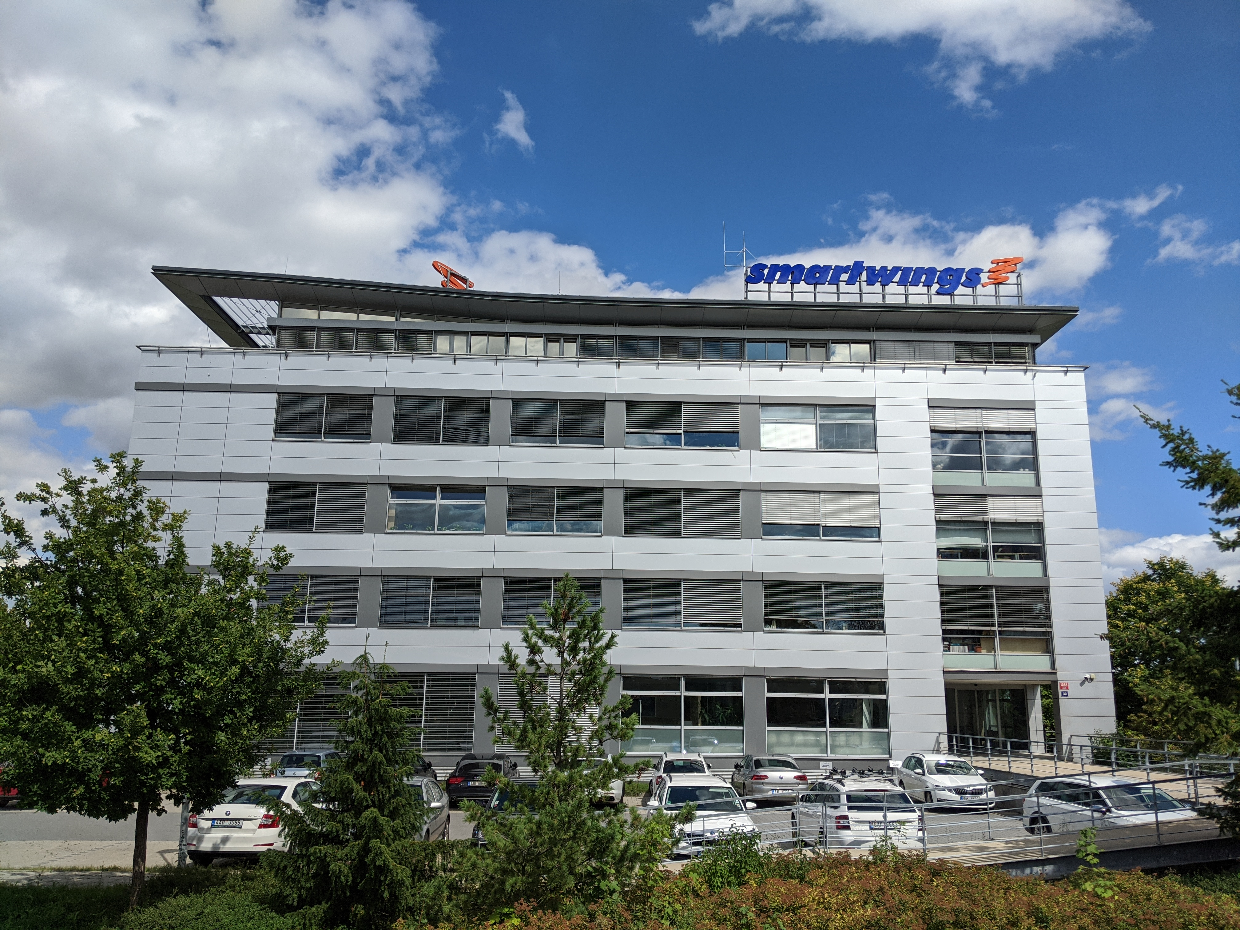 Headquarters of Smartwings at Václav Havel Airport in Prague